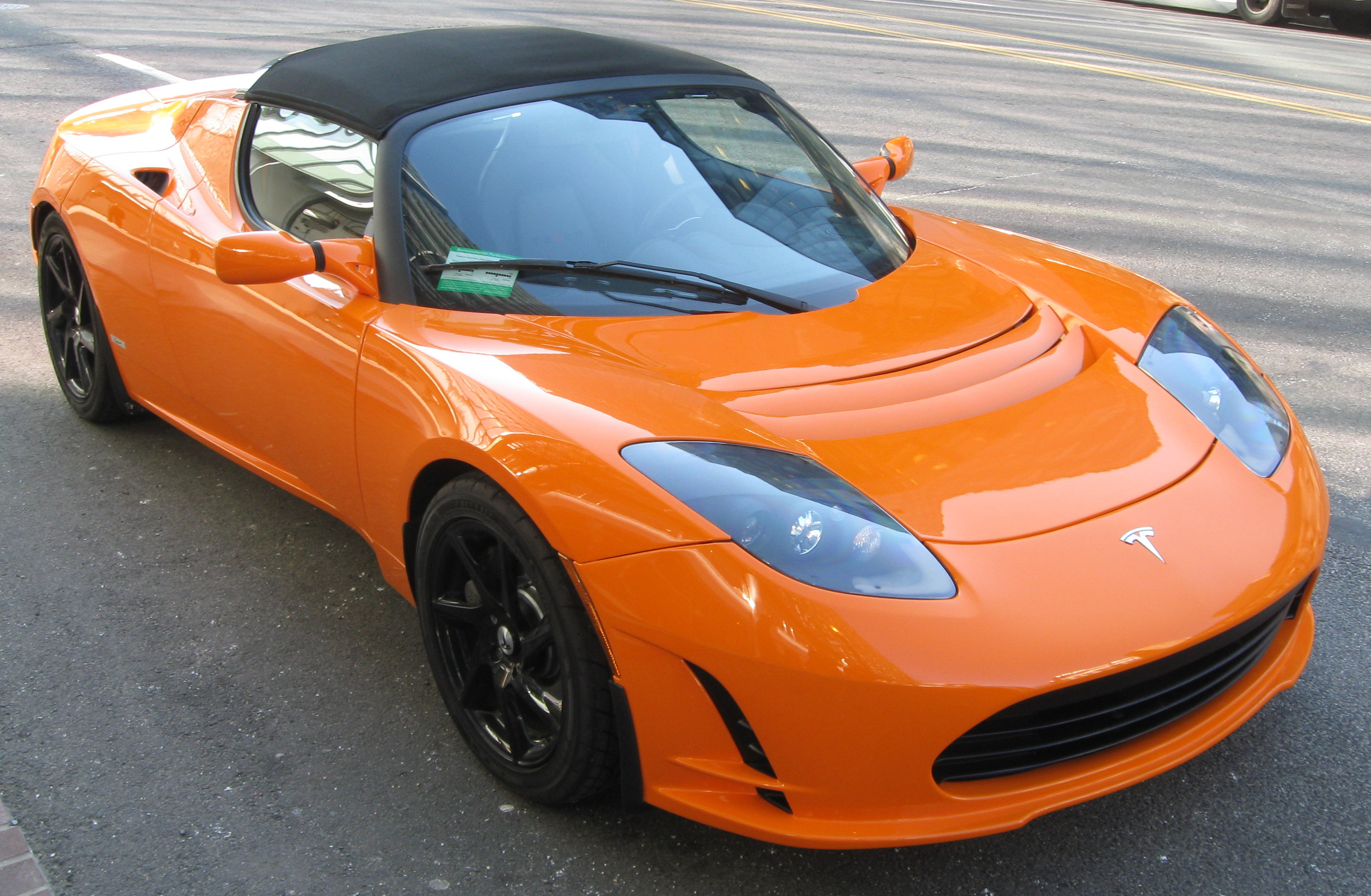 Tesla Roadster photographed in Washington, D.C., USA.